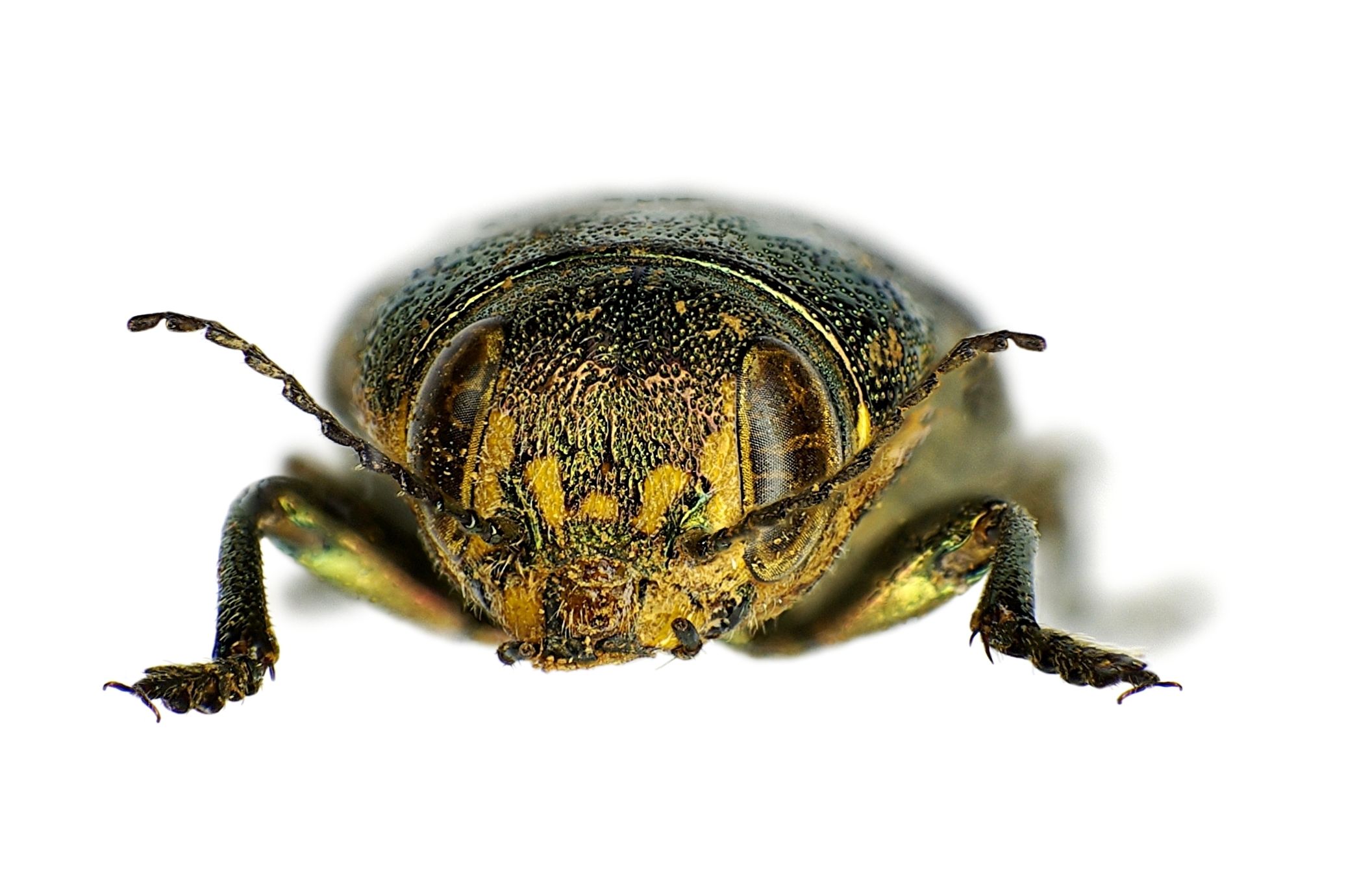 Buprestis haemorrhoidalis from Greece